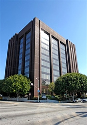 I took this photo, and release all rights to it per the license described on this page. AkankshaG 05:20, 24 January 2010 (UTC)